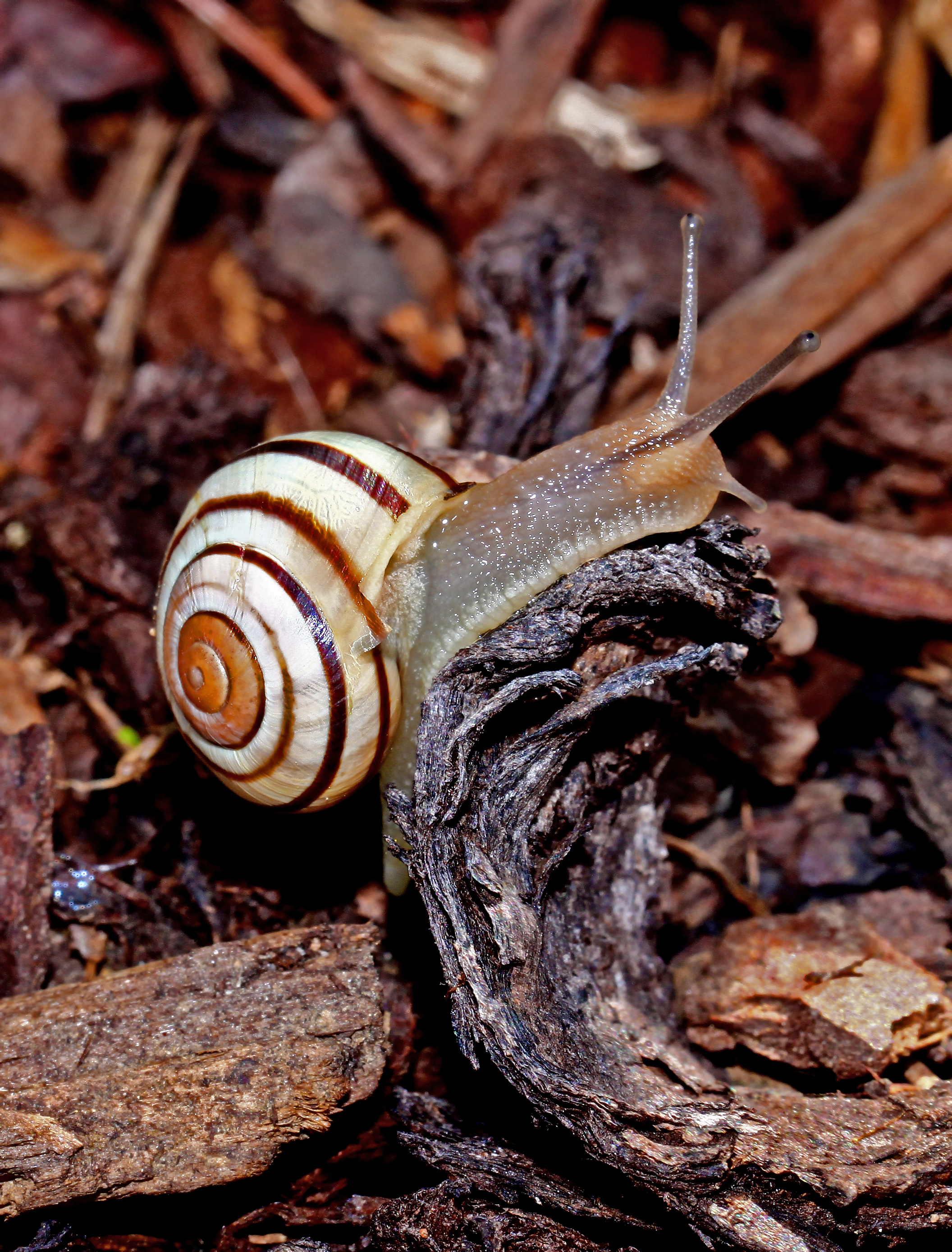 White-lipped Snail; Langenau, Germany.